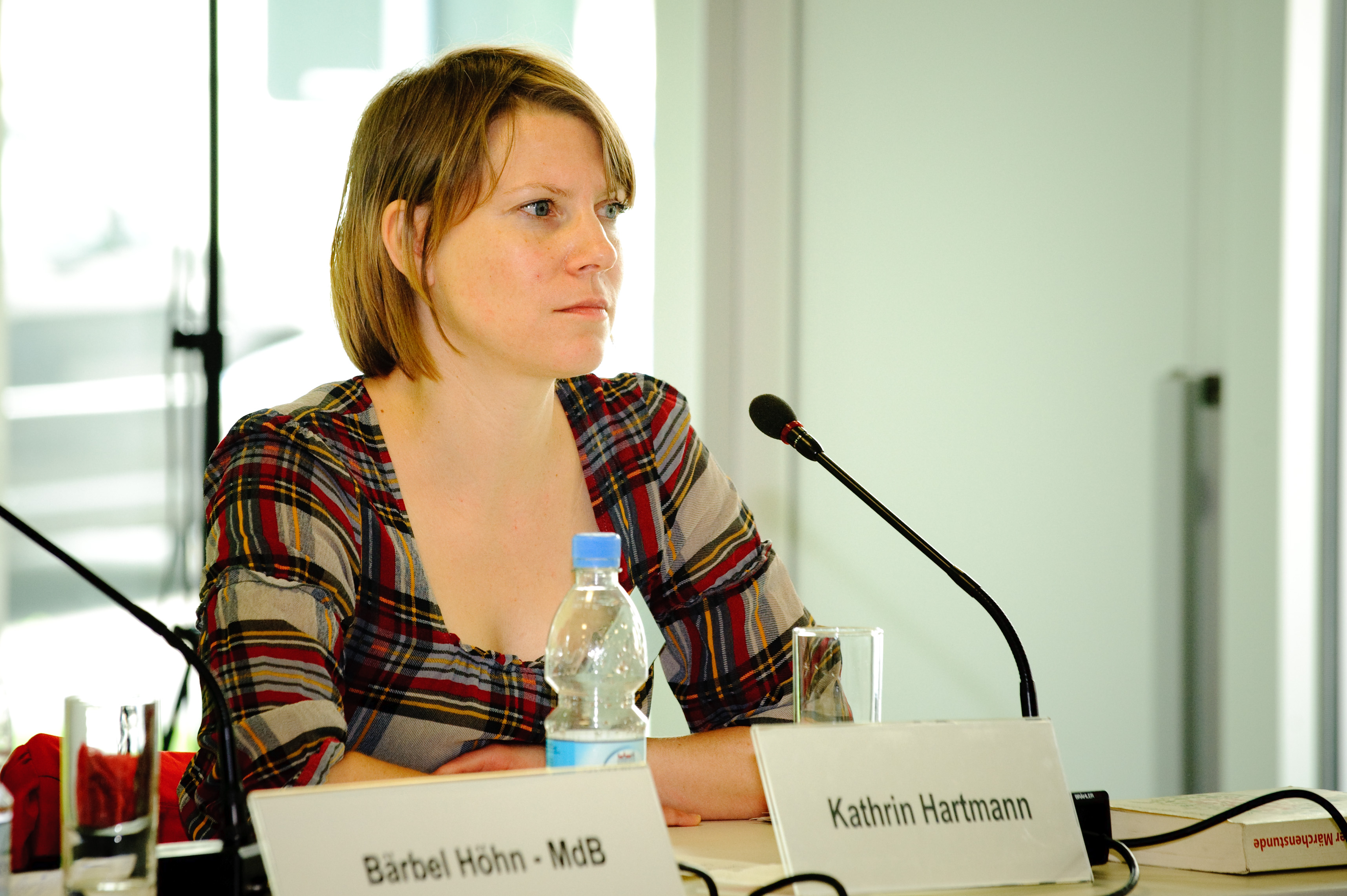 Foto: Stephan Röhl